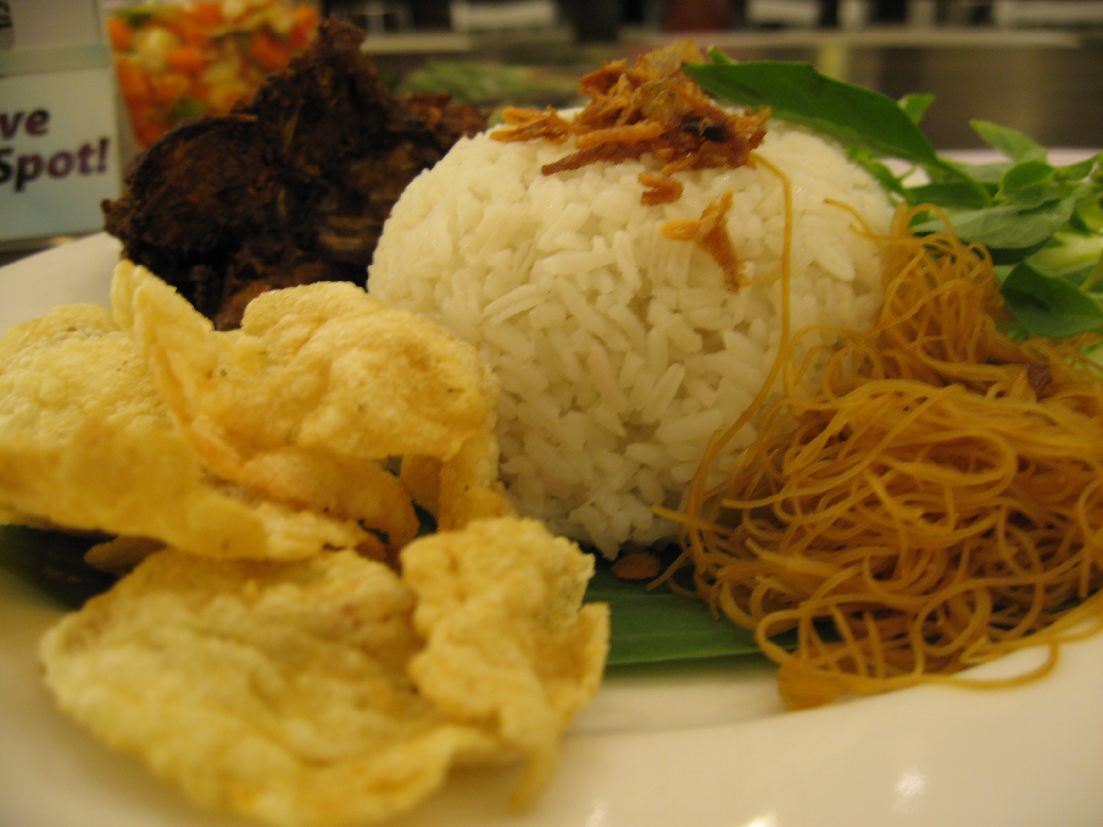 Nasi Uduk served with fried ice vermicelli, emping, beef stew, and fried chicken.